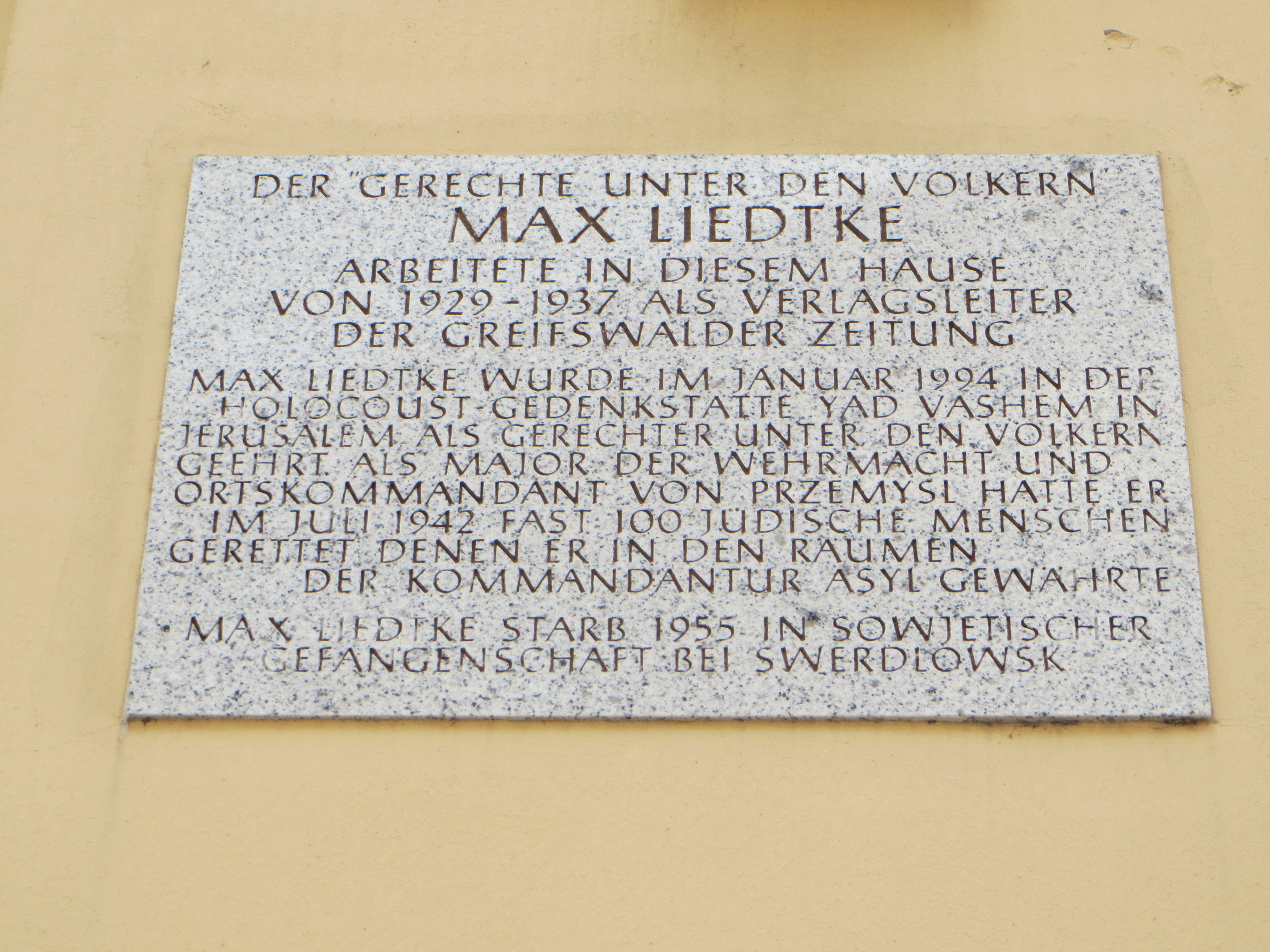 Plaque commemorating Max Liedtke (Journalist) at Ostseezeitung newspaper building, Johann-Sebastian-Bach-Strasse 32 in Greifswald